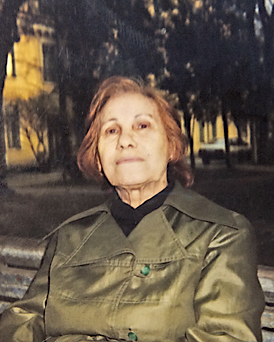 Lyolya Shomakhova, kabardian poet Amirkhan Shomakhov's wife. From Shomakhovs family archive. Taken in 1980s.